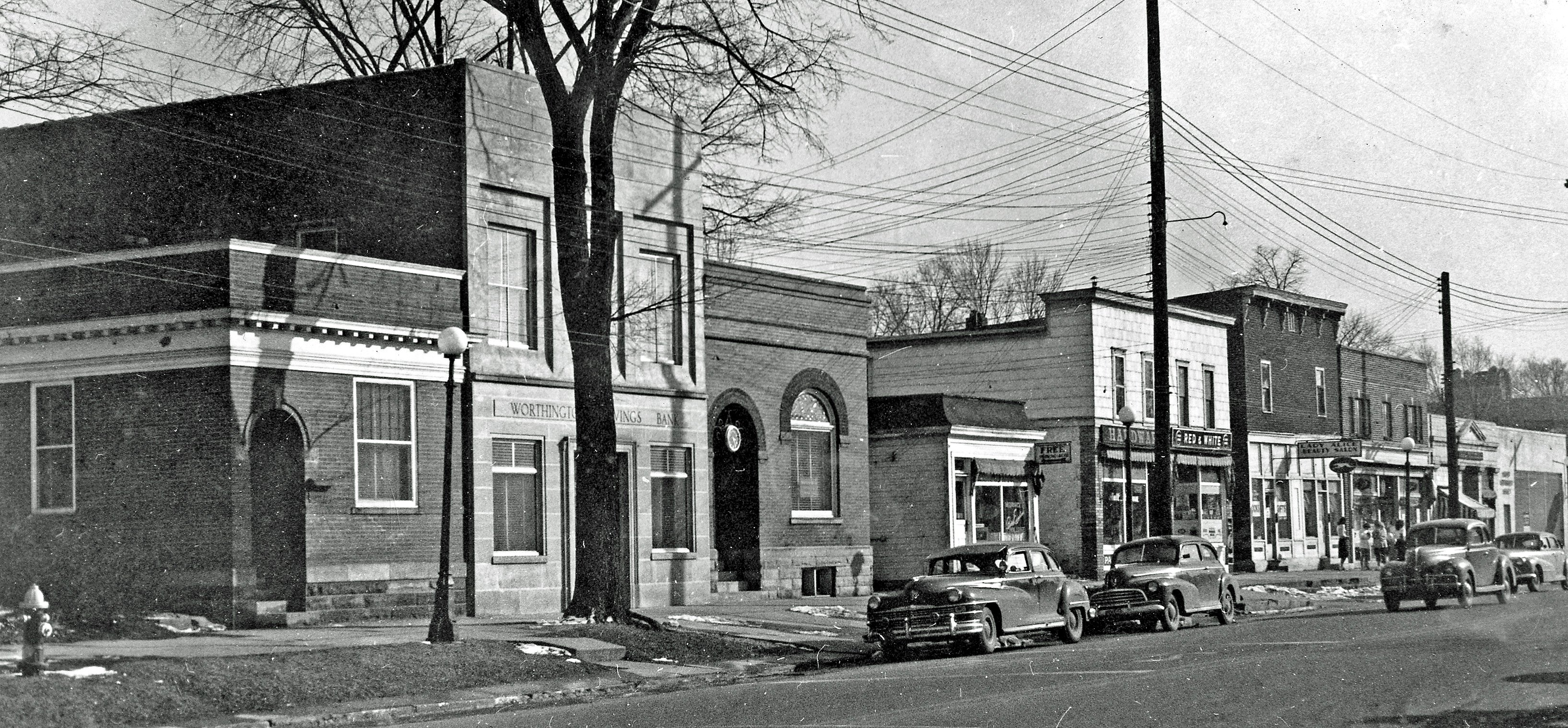 Worthington, Ohio. East side of High Street looking south during February 1948.